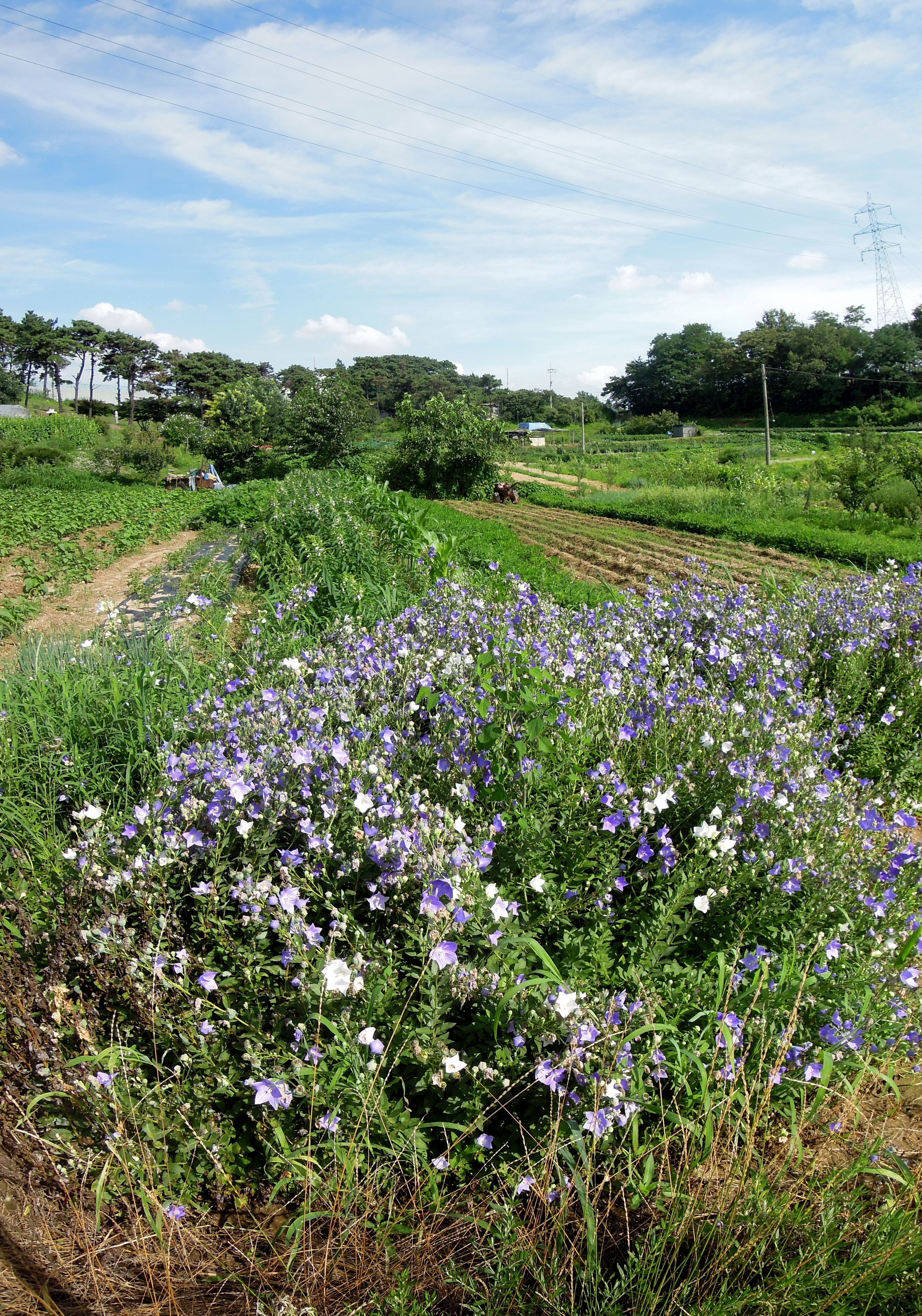 Smallholdings in Ipbuk-dong, Suwon, South Korea